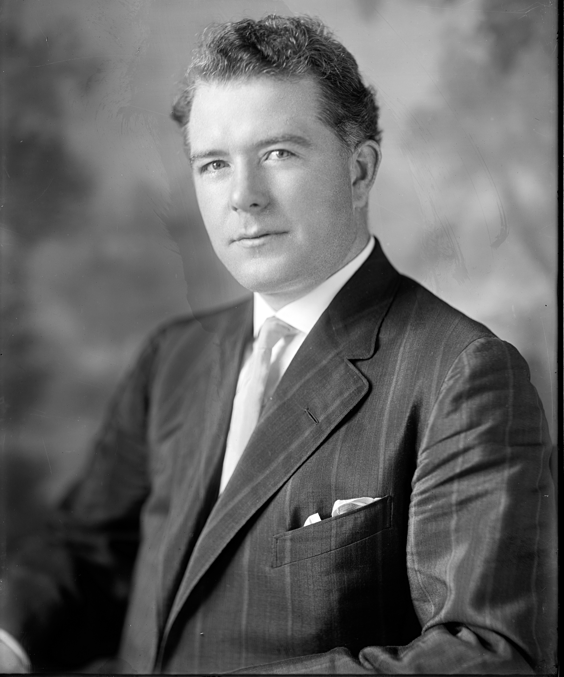 Eugene F. Kinkead, US Representative from New Jersey